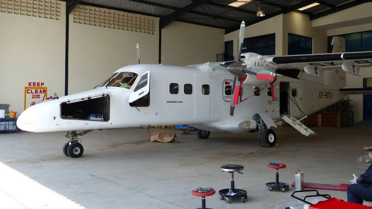 At At Wilson Airport.This aircraft crash 24 November 2019.